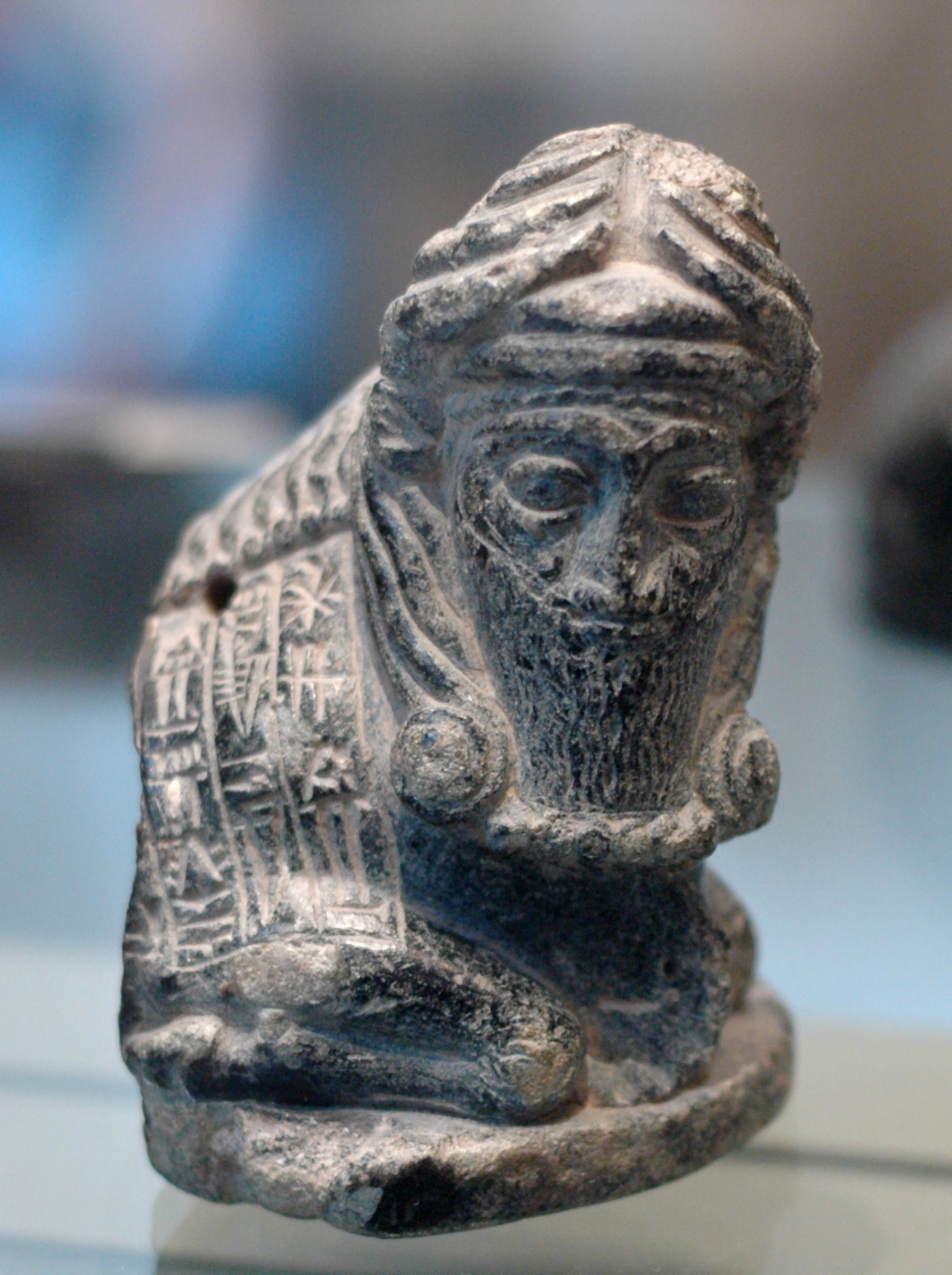 Human-headed bull statuette dedicated by Gudea, prince of Lagash. Chlorite, Neo-Sumerian Period (ca. 2120 BC). Found in Telloh (ancient city of Girsu).